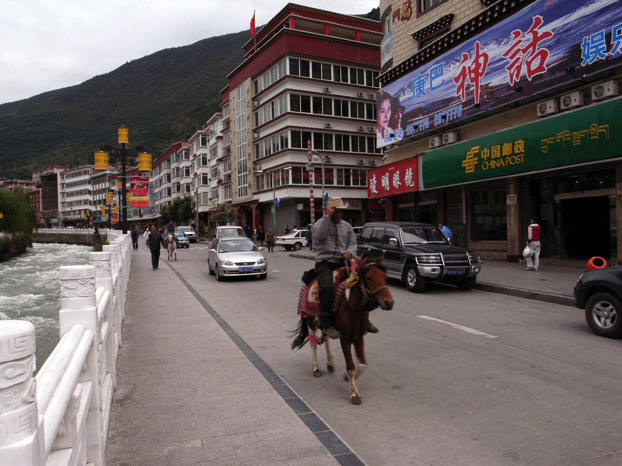 Kangding, Garzê Tibetan Autonomous Prefecture, Sichuan, China